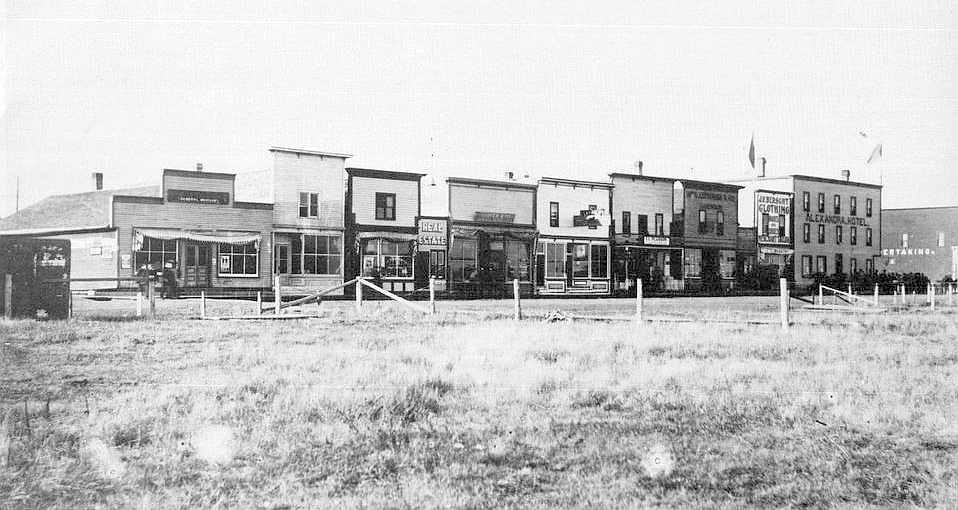 Main Street, Didsbury, Alberta.